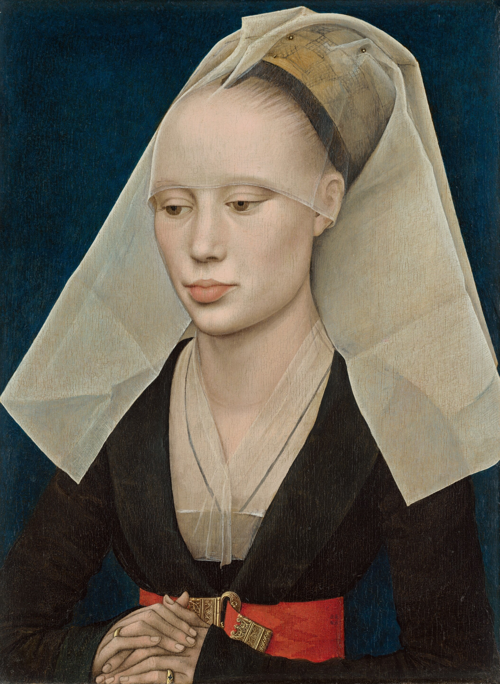 This is an outstanding example of the abstract elegance characteristic of Rogier's late portraits. Although the identity of the sitter is unknown, her air of self–conscious dignity suggests that she is a member of the nobility. Her costume and severely plucked eyebrows and hairline are typical of those favored by highly placed ladies of the Burgundian court. The dress, with its dark bands of fur, almost merges with the background. The composition is built from the geometric shapes that form the lines of the woman's veil, neckline, face and arms, and by the fall of the light that illuminates her face and headdress. Her hands are delicately clasped in prayer.